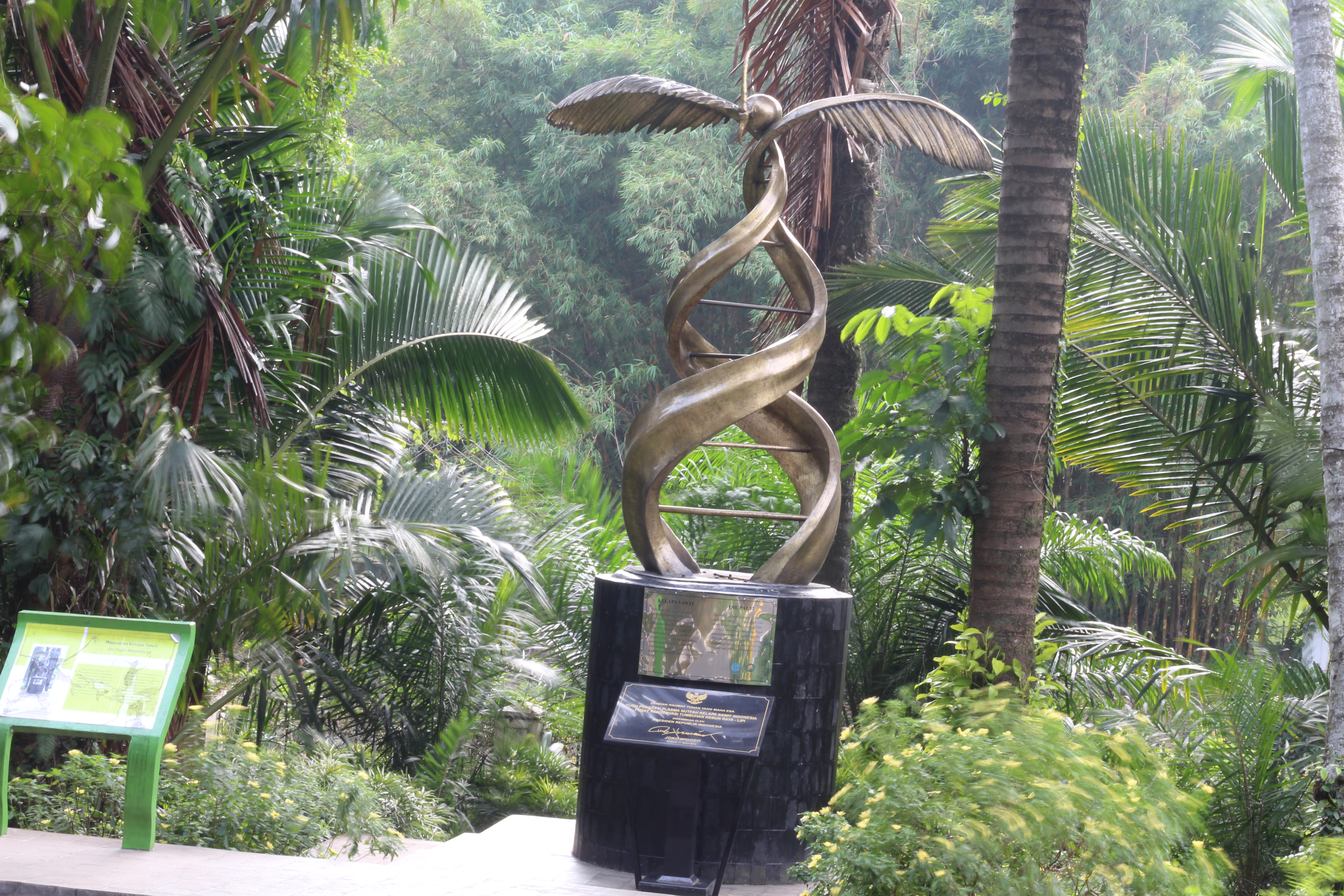 Palm Oil Monument in Bogor Botanical Gardens. The place where the monument stands was the same place where the 4 ancestors of all palm oil tree in Asia were planted. The picture was also used in my article in Lovely bogor (link